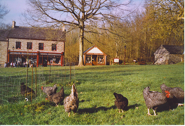 Gwalia Stores and Photographer's Shop, St Fagans. In the Museum Of Welsh Life, the stores were originally built in Ogmore Vale, Bridgend in 1880. Today it houses a shop and upstairs tea room for the museum.